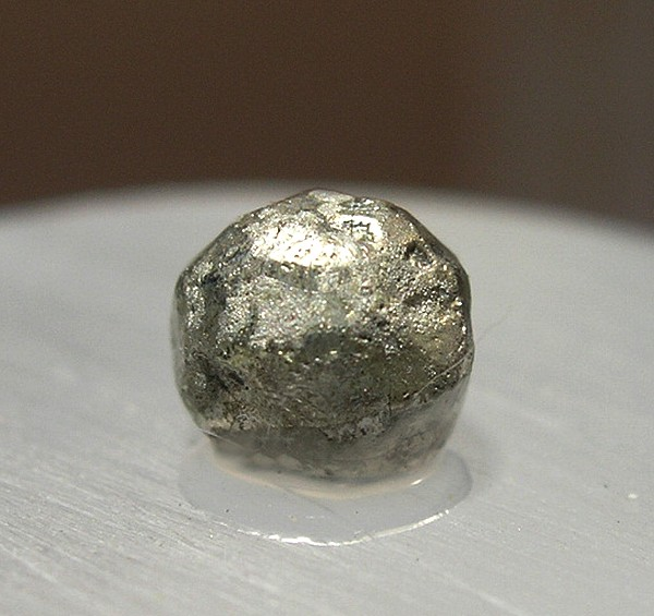 Moschellandsbergite Locality: Carolina Mine, Landsberg Mt. (Moschellandsberg Mt.), Obermoschel, Rhineland-Palatinate, Germany (Locality at ) From the John Saul collection, a superb floater crystal of exceptional quality of Moschellandsbergite , small but perfect and complete all around. Comes with xerox of the above label which was with the two specimens together. 0.4 x 0.4 x 0.4 cm